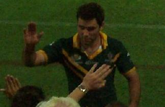 Cameron Smith